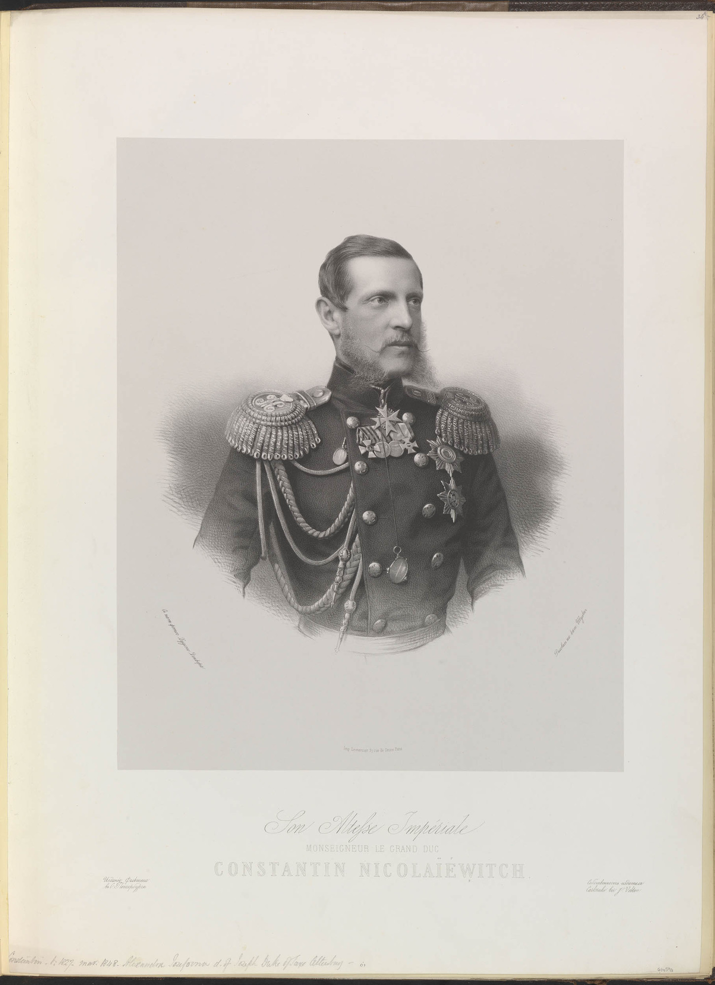 Grand Duke Konstantin Nikolayevich of Russia